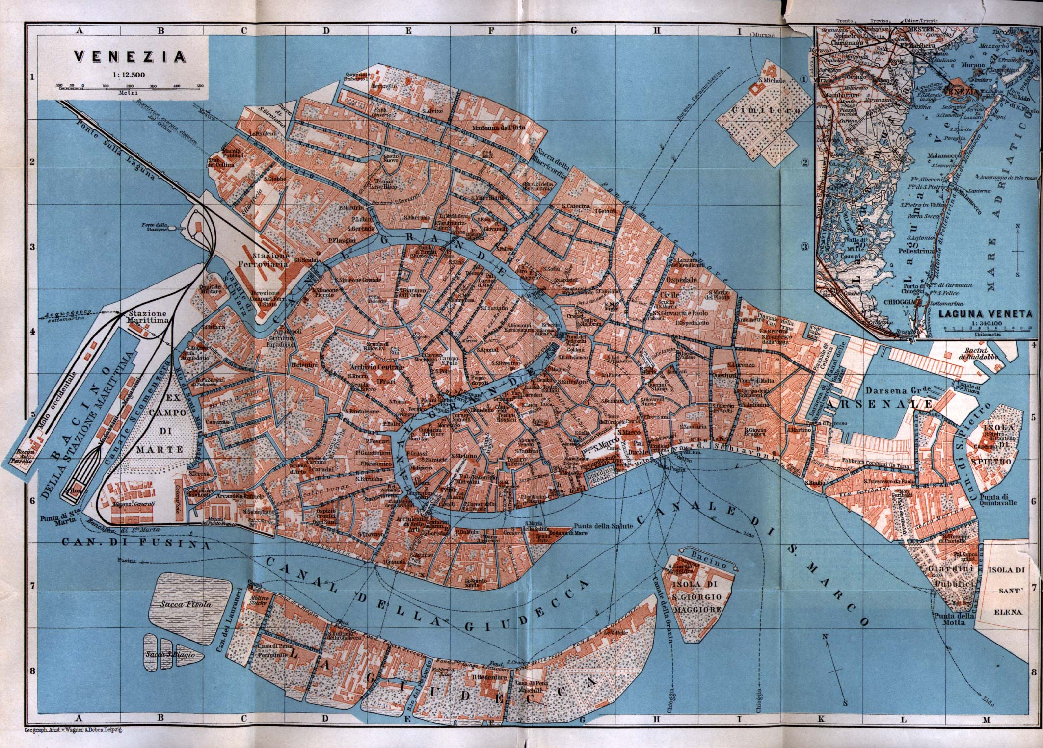 Venice: Italy: 1913 map of city center